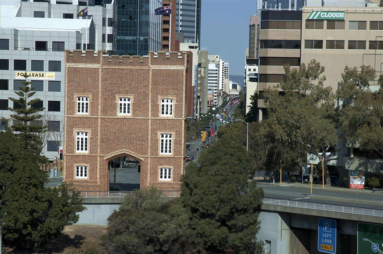 The Barracks Arch - Perth, Western Australia.